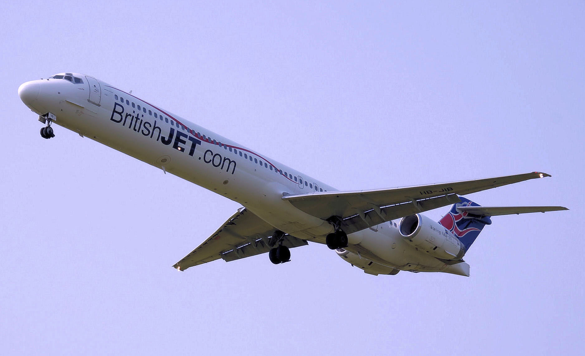 BritishJET McDonnell Douglas MD-90-30 (Swiss registration HB-JIB) lands at London Gatwick Airport, England. This aircraft is leased from a Swiss airline.